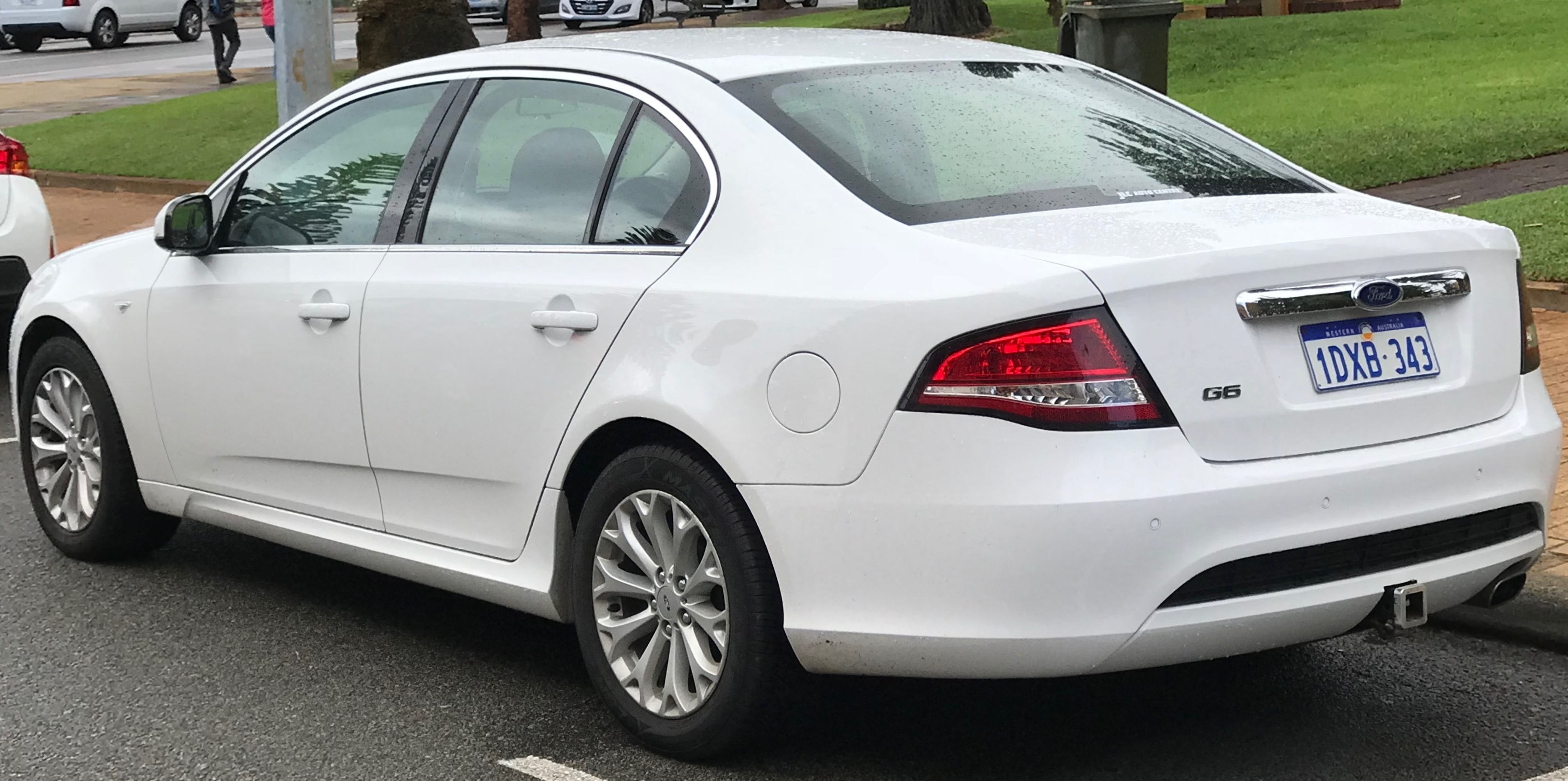 2012 Ford Falcon (FG II) G6 sedan. Photographed in Fremantle, Western Australia, Australia.